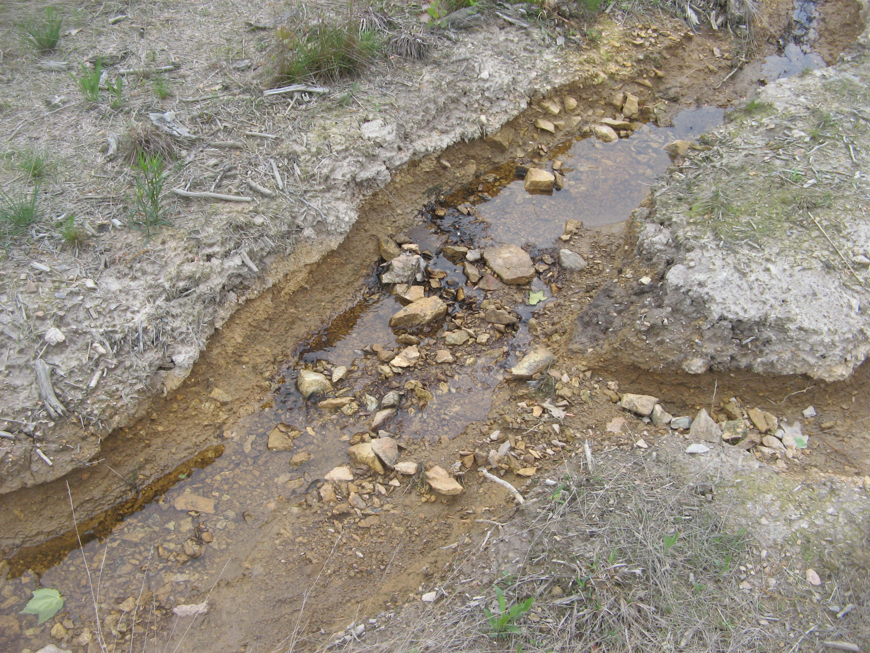 Stream running through Rock Springs Nature Preserve, Lancaster County, PA